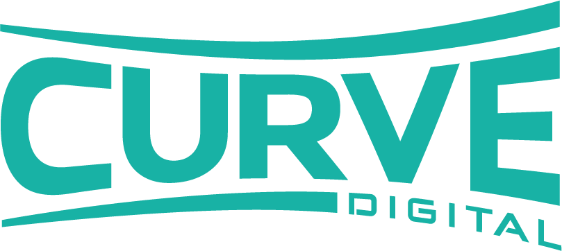 Curve Digital logo 2018